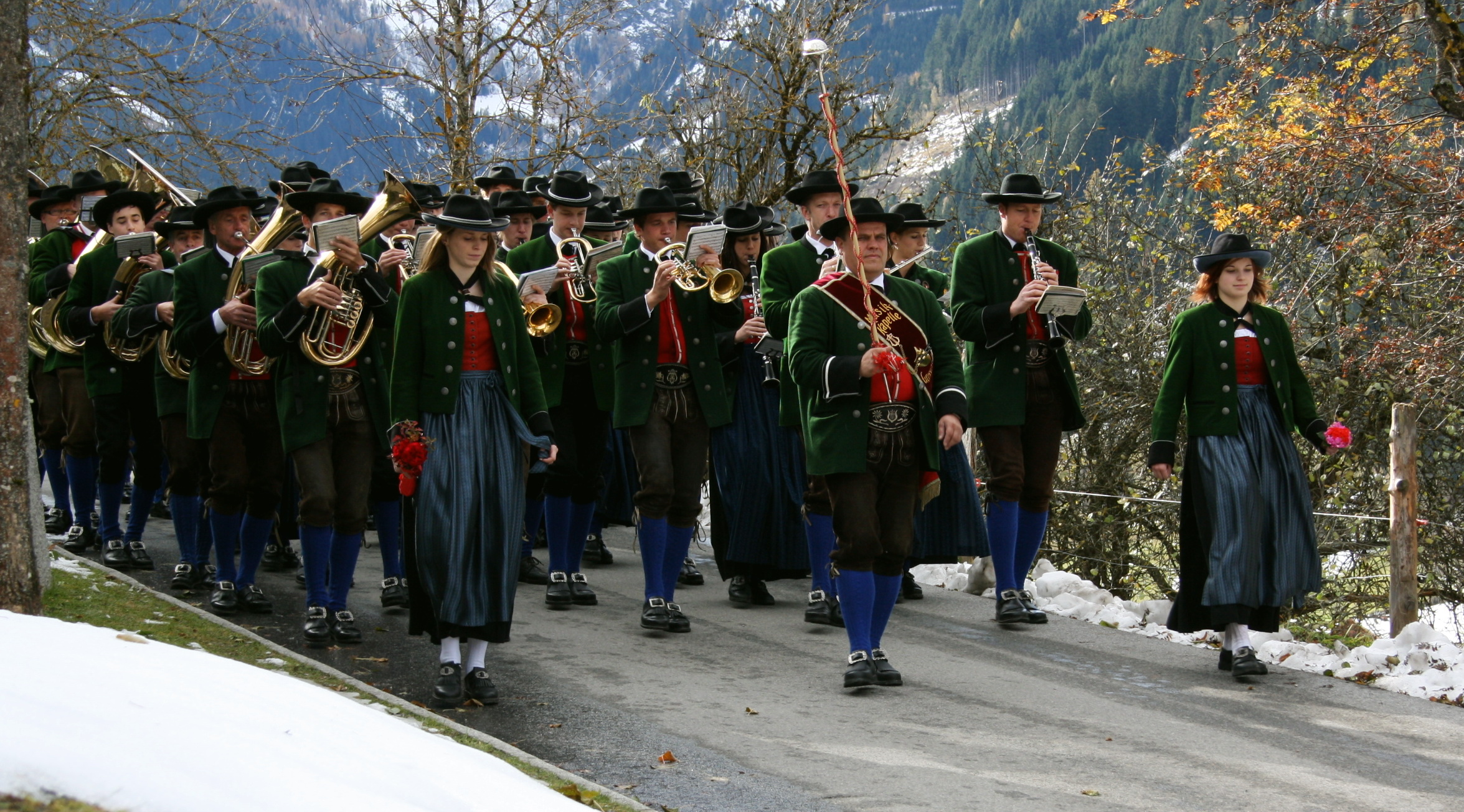 Music Band of Großarl on moving to a wreath in memory of the fallen soldiers of the 1st Großarl and 2 World War II.